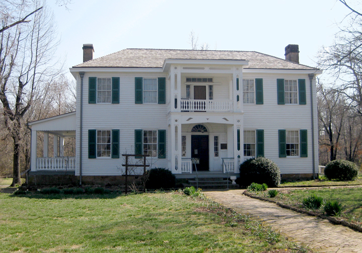 Murrell Home, Park Hill, Oklahoma. Built 1844-5 by George M. Murrell for his wife Minerva Ross.